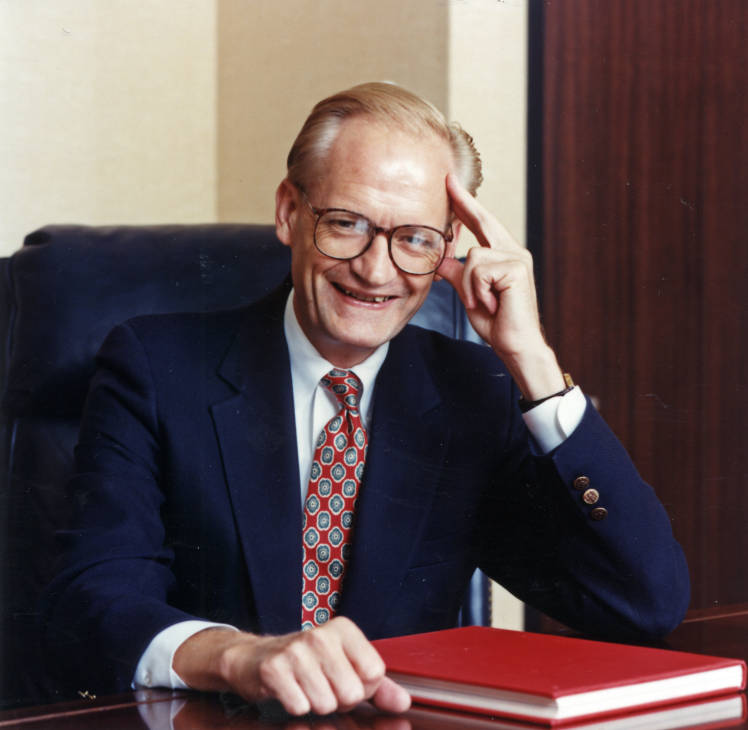 A portrait of Dr. Alexander F. Schilt